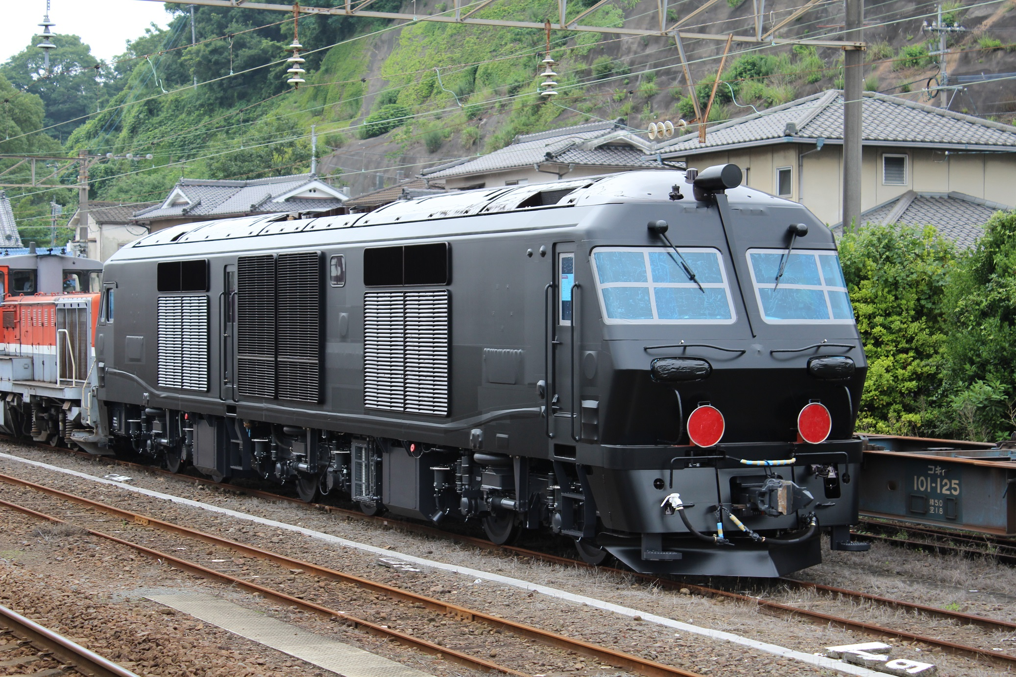 The Class DF200 diesel locomotive DF200-7000 for JR Kyushu's Seven Stars in Kyushu cruise train at Nishi-Oita Station en route from the Kawasaki Heavy Industries factory in Kobe. The locomotive is covered in a protective black film concealing its dark maroon livery.